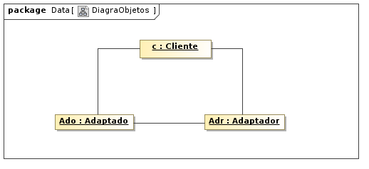 Diagrama de obxetos do patrón de deseño adaptador coa implementación de clase adaptadora.